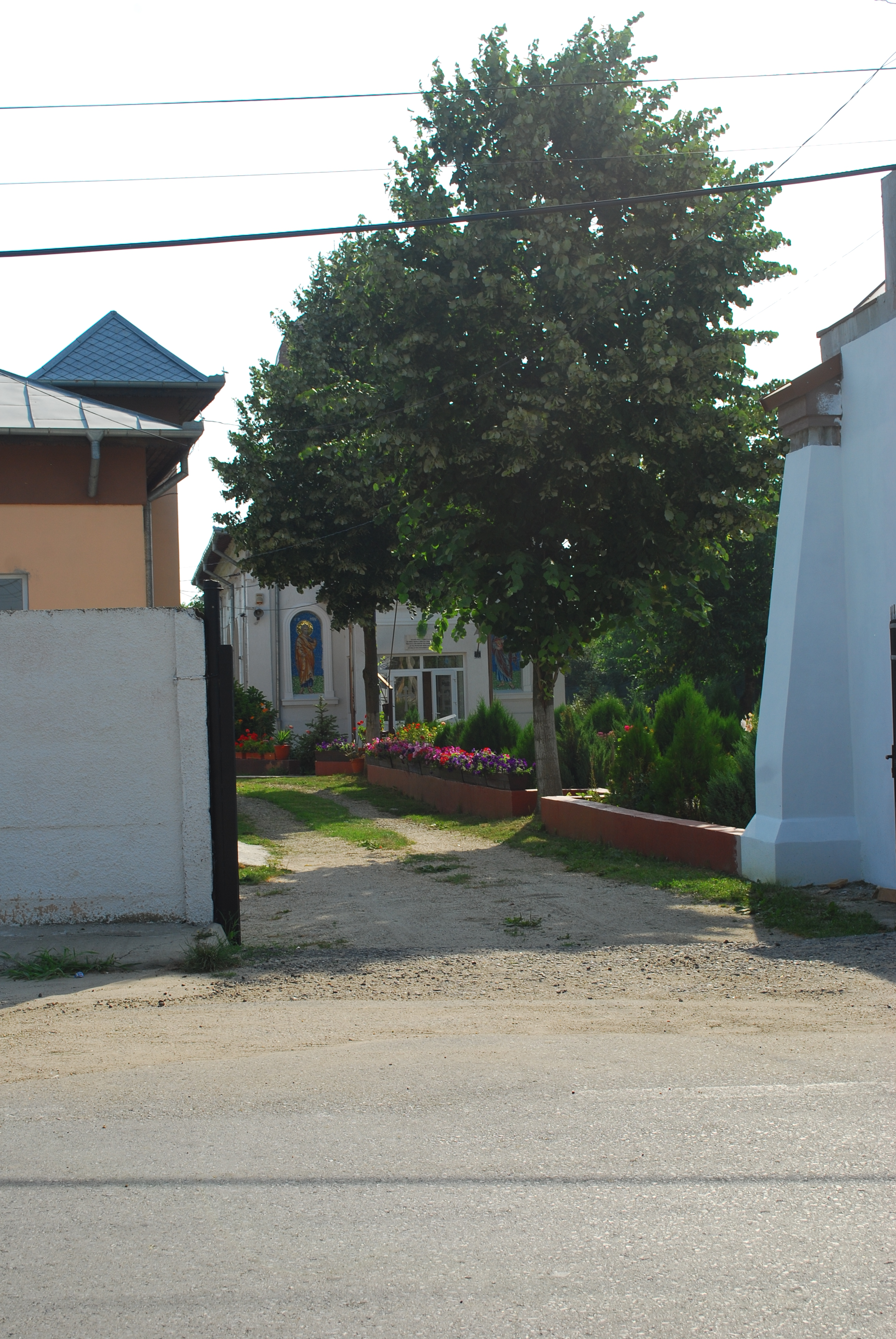 Church of the Assumption of Mary in Tânganu, Cernica commune, Ilfov County, Romania